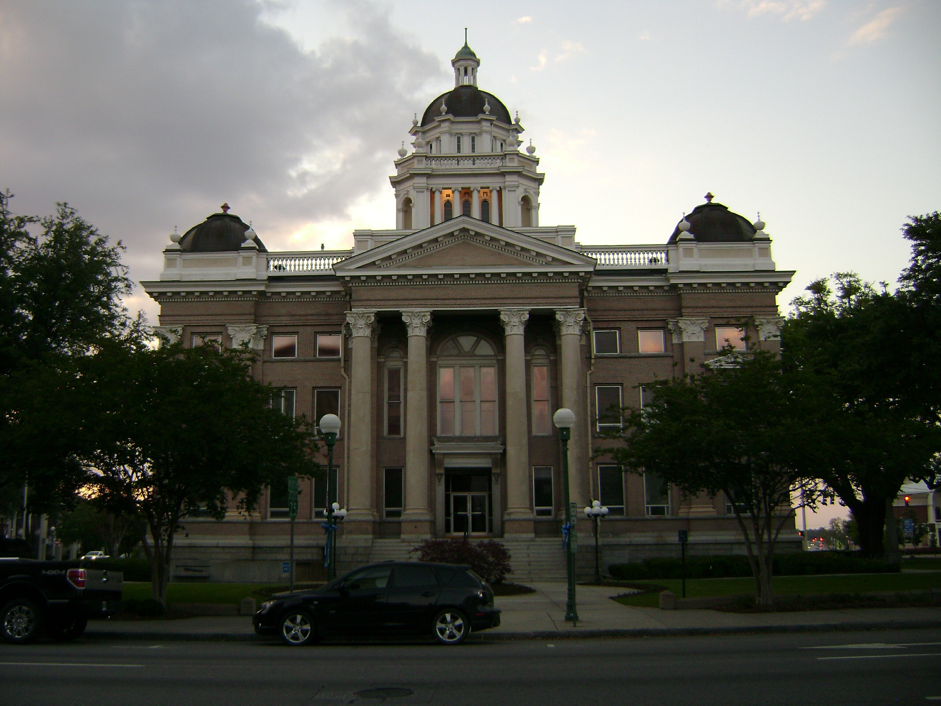 Lowndes County Courthouse on US 84 in Valdosta, Lowndes County, Georgia